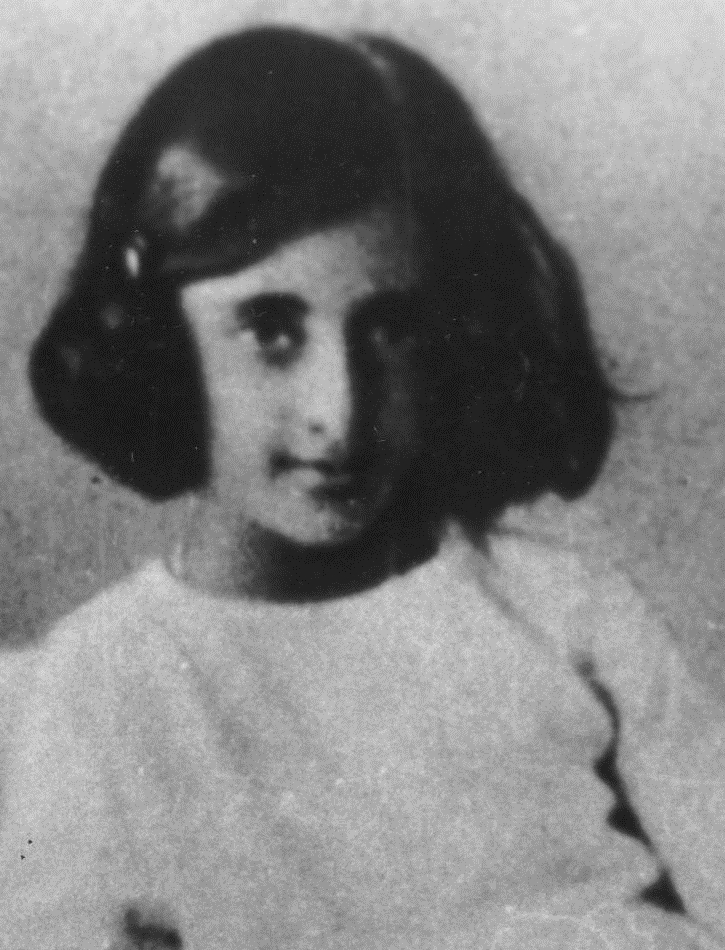 Picture of a 5 year old Indira Gandhi (née Nehru) from 1924.